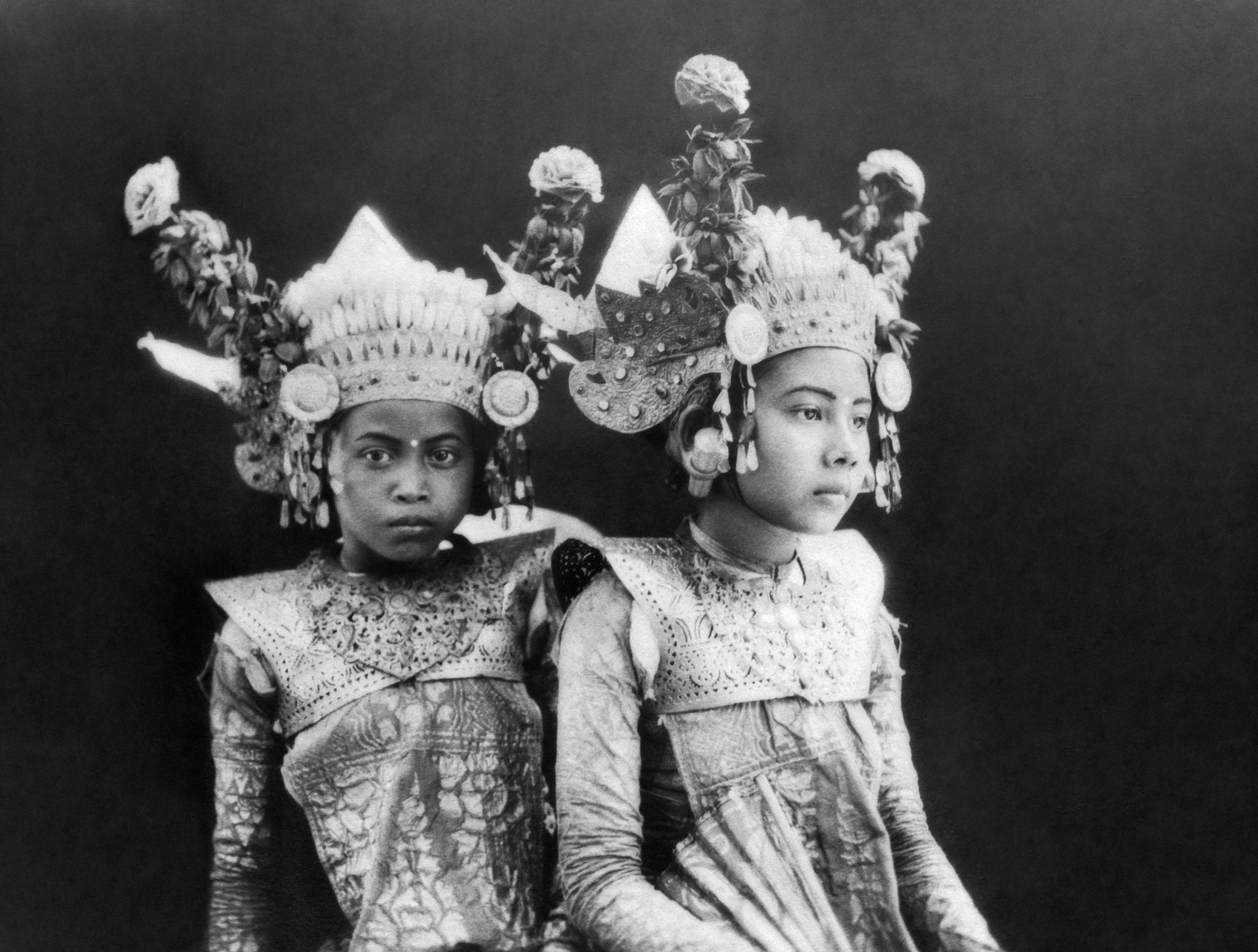 Repronegative. Portrait of two young Balinese dancers